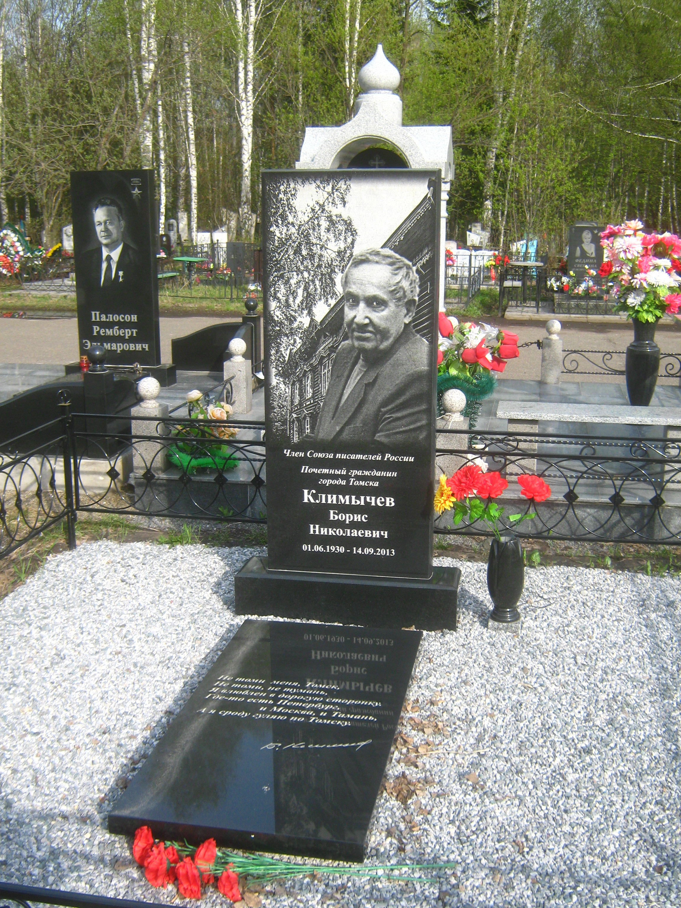 Б. Н. Климычев на Бактине